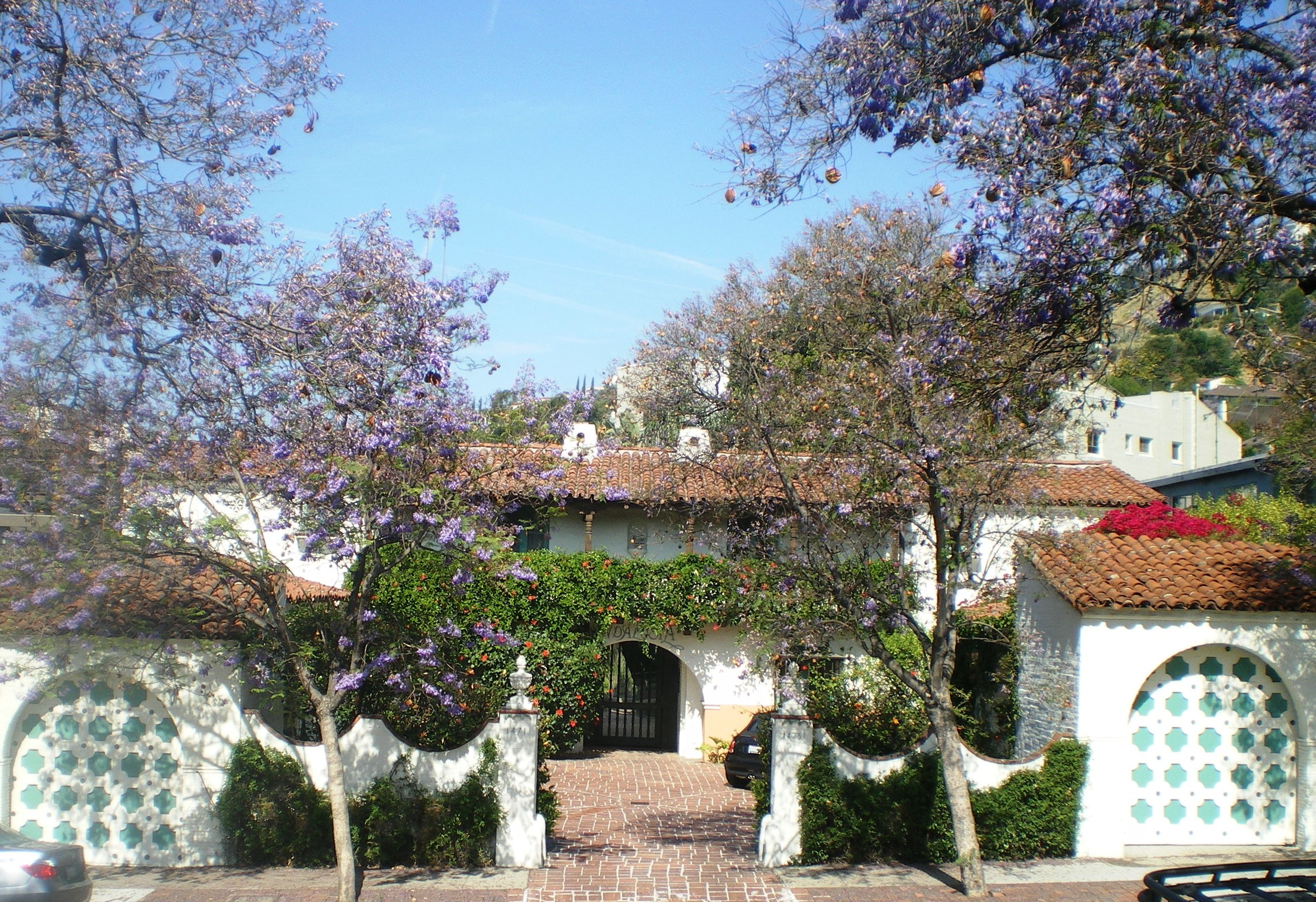 Andalusia Apartments, 1400 block of Havenhurst Drive, Hollywood, California